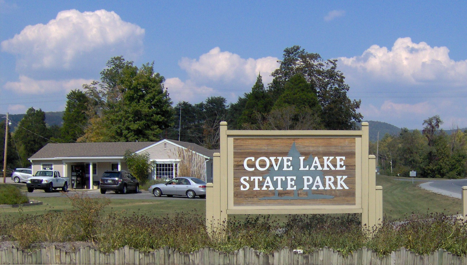 The entrance to Cove Lake State Park along US-25W in Campbell County, Tennessee, in the southeastern United States. The park's office and visitor center is on the left.